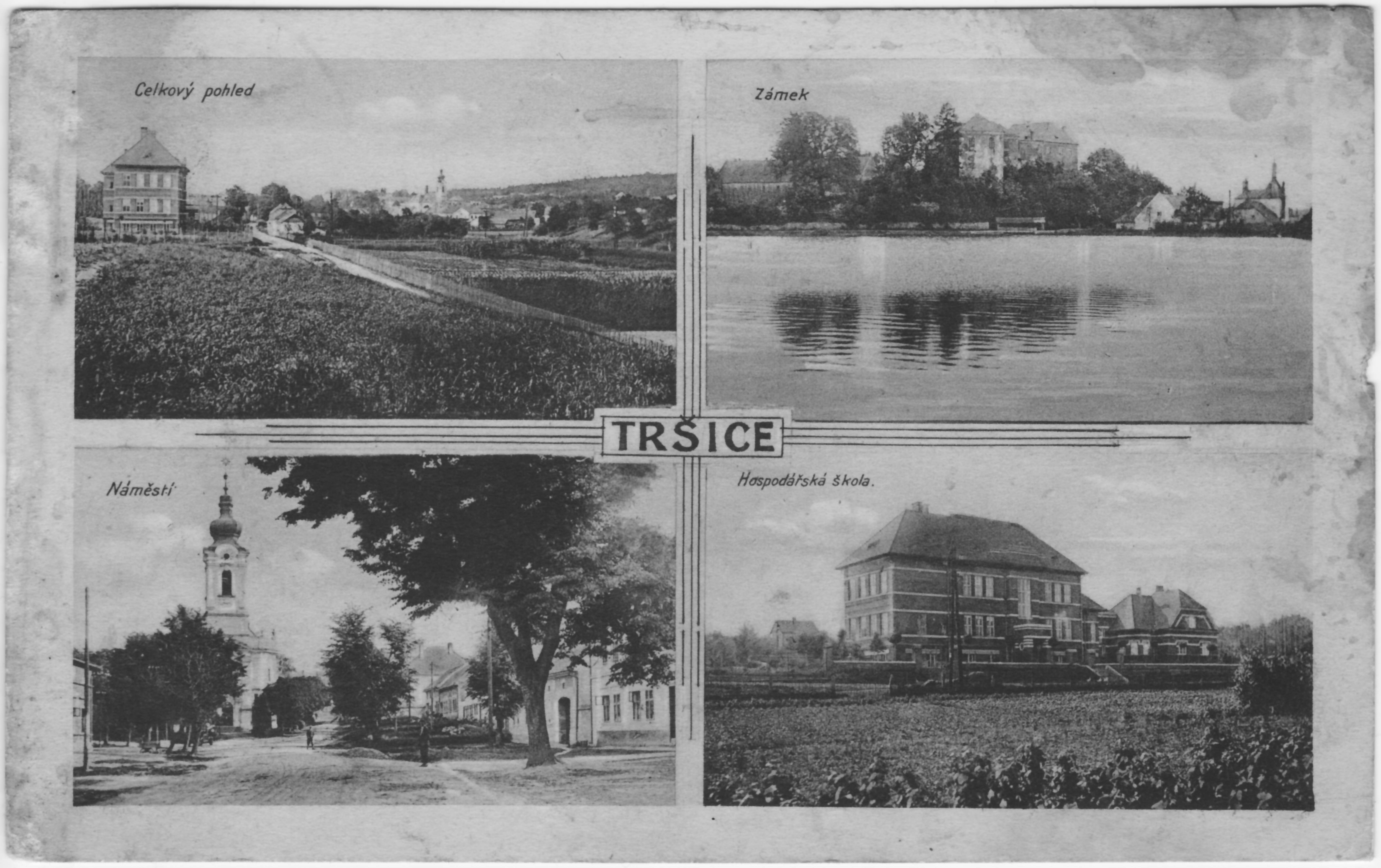 Historical postcard of Tršice. It was postmarked on 30 May 1930.